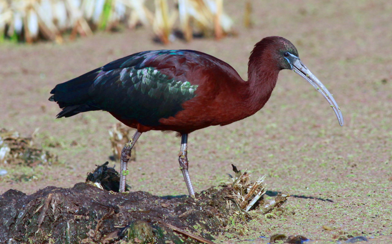 Glossy Ibis, Plegadis falcinellus at Marievale Nature Reserve, Gauteng, South Africa